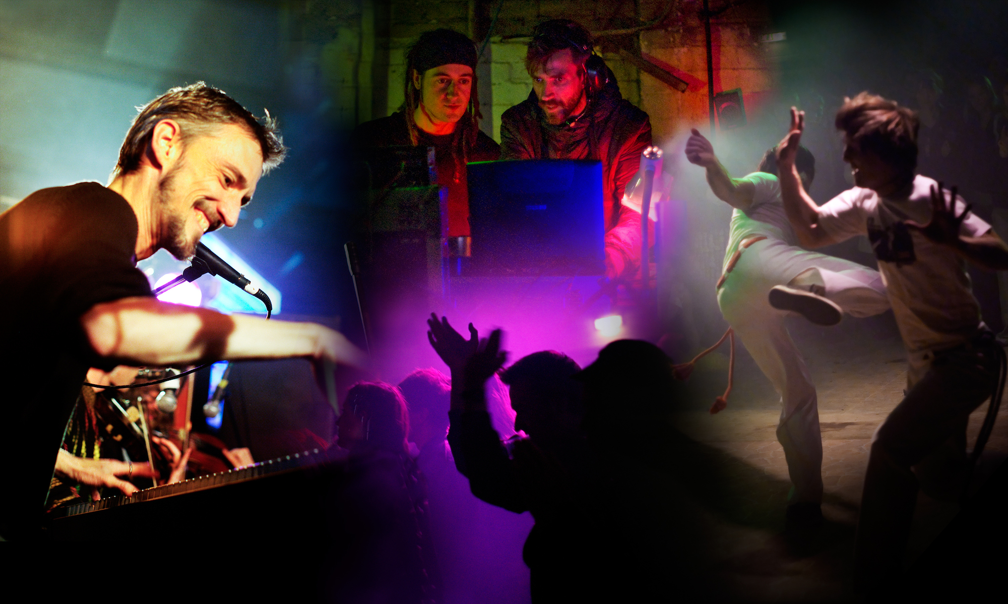 Compostite image compiled by Matt Murtagh from photos he took at the second Project X Presents event at the Rainbow Warehouse.